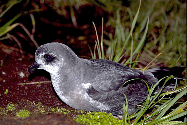 Mottled Petrel (Pterodroma inexpectata) Author: Thomas Mattern Institution: Department of Zoology, University of Otago, Dunedin, New Zealand Image date: 12.11.2003 Image location: Snares Islands, North East Island, Station Cove